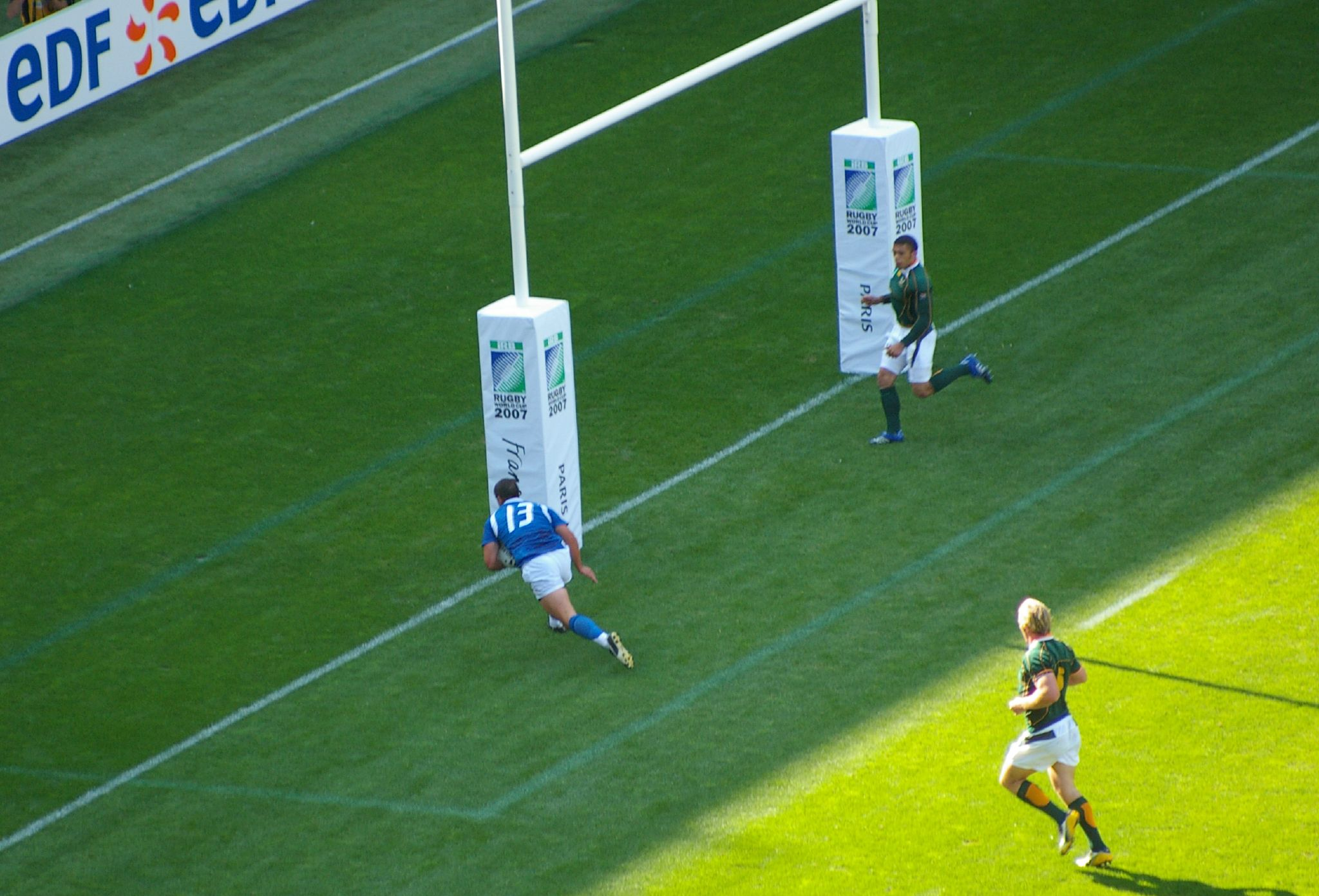 Gavin Williams scoring his try. South Africa - Samoa Rugby World Cup 2007 Paris. Parc des Princes